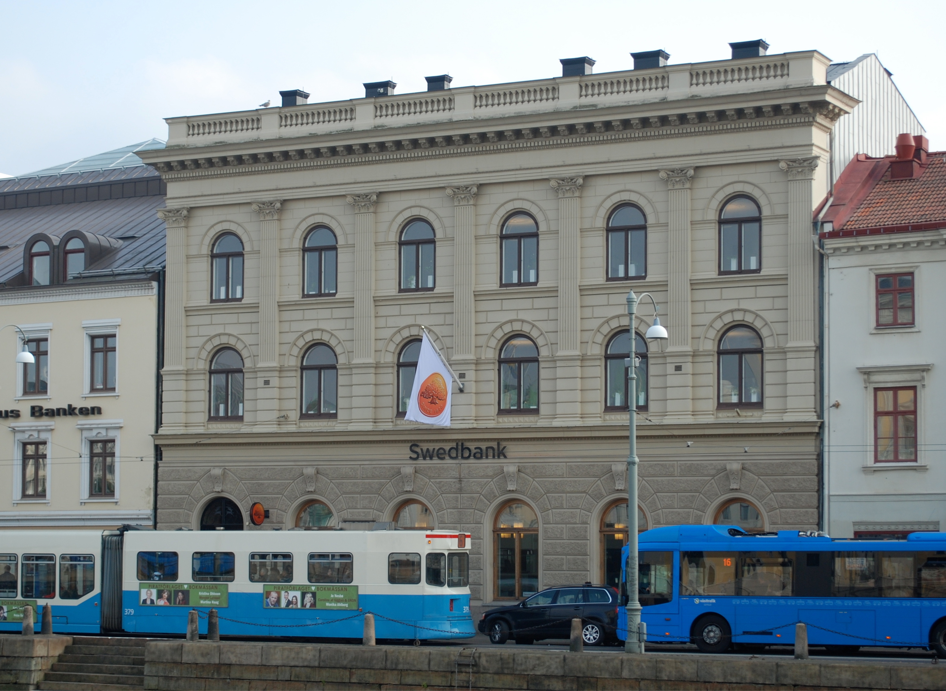 Riksbankshuset (formerly the local office of the Swedish central bank, "Riksbanken"). Today used by Swedbank. Södra hamngatan 27.